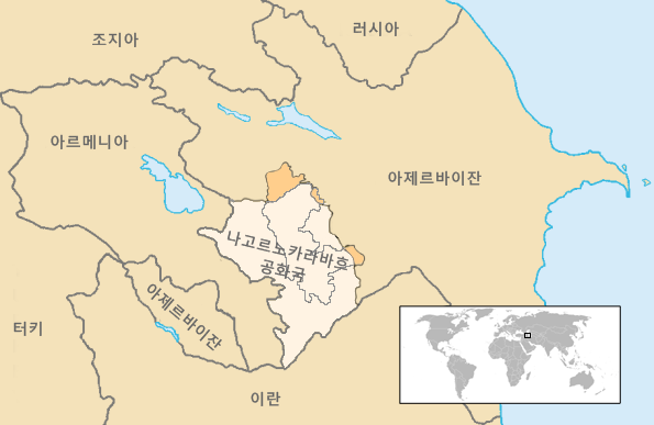 Location of Nagorno-Karabakh Republic.